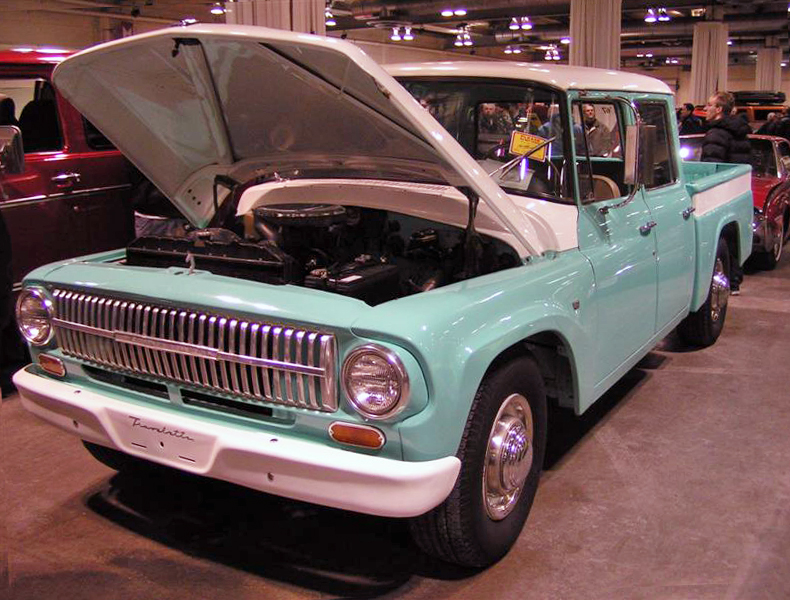 1966 International Travelette 1100/1200/1300A truck - rare crew cab version.